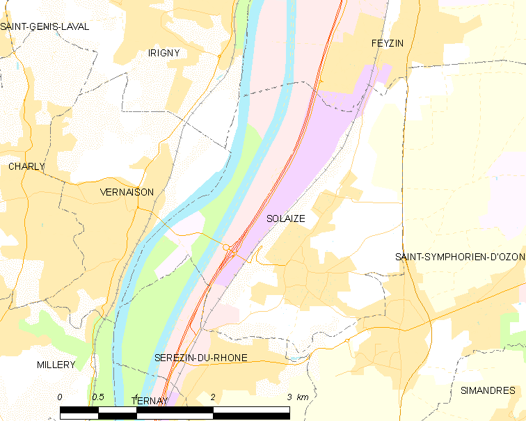 Map of French municipality